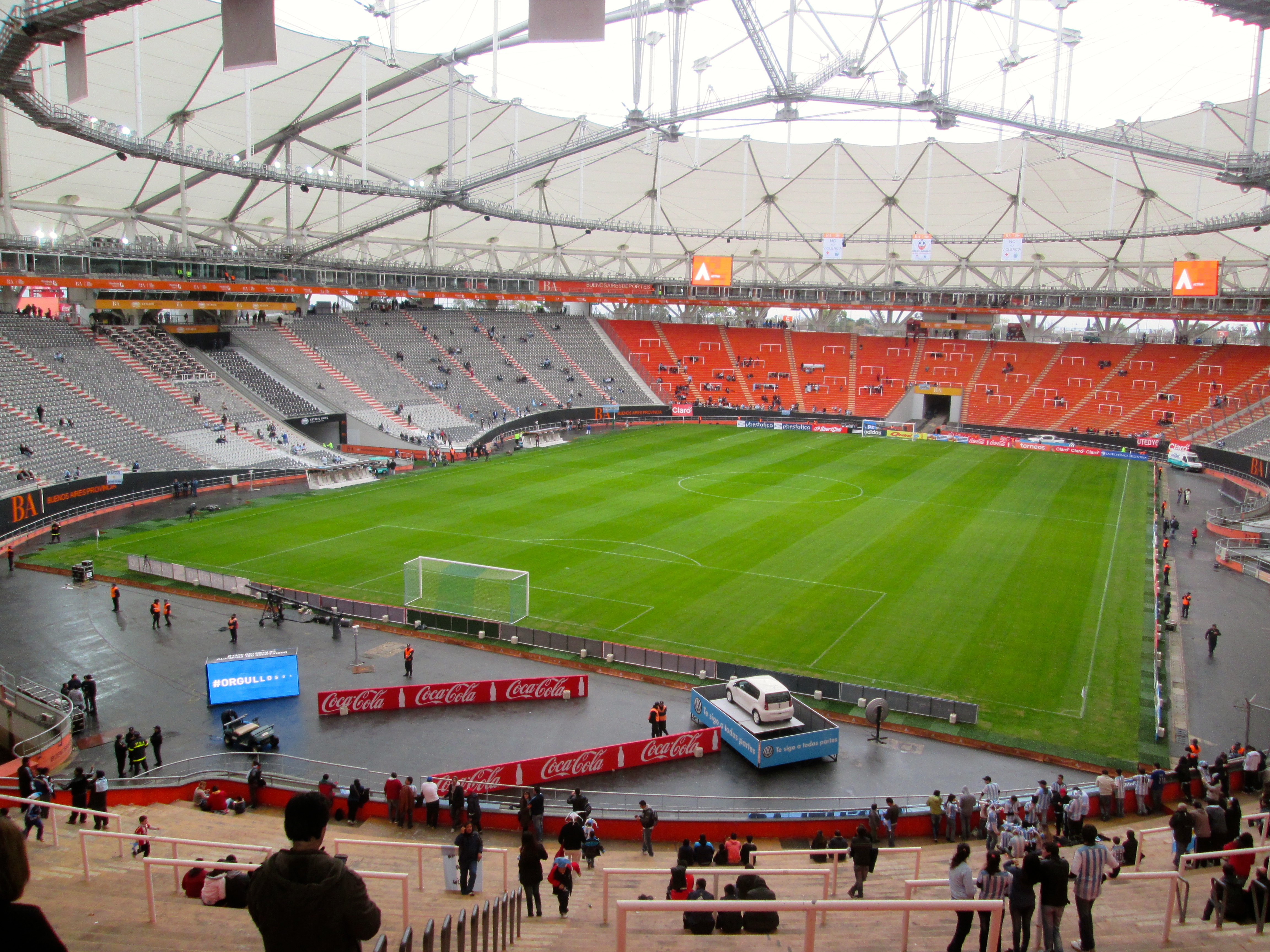 Interior of the Estadio Unico de La Plata, prior to an Argentina friendly match during June 2014